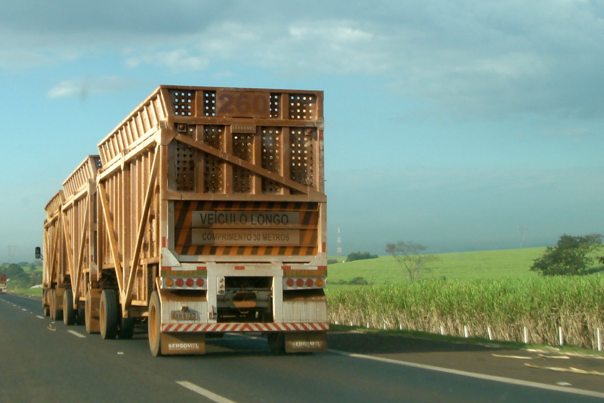 Special trailer equipment for carrying sugar cane to the sugar/ethanol plant, São Paulo state, Brazil